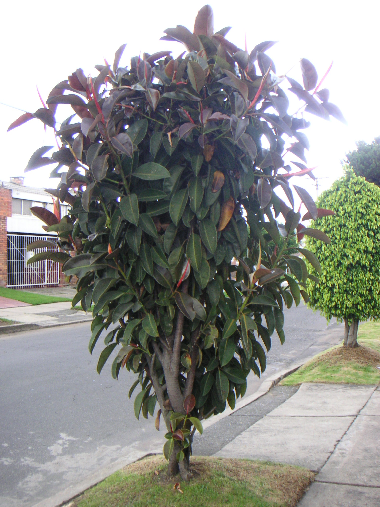 Species Ficus elastica Genus Ficus Familia Moraceae Location: Bogotá, Colombia Source: Louise Wolff (darina), April 2005